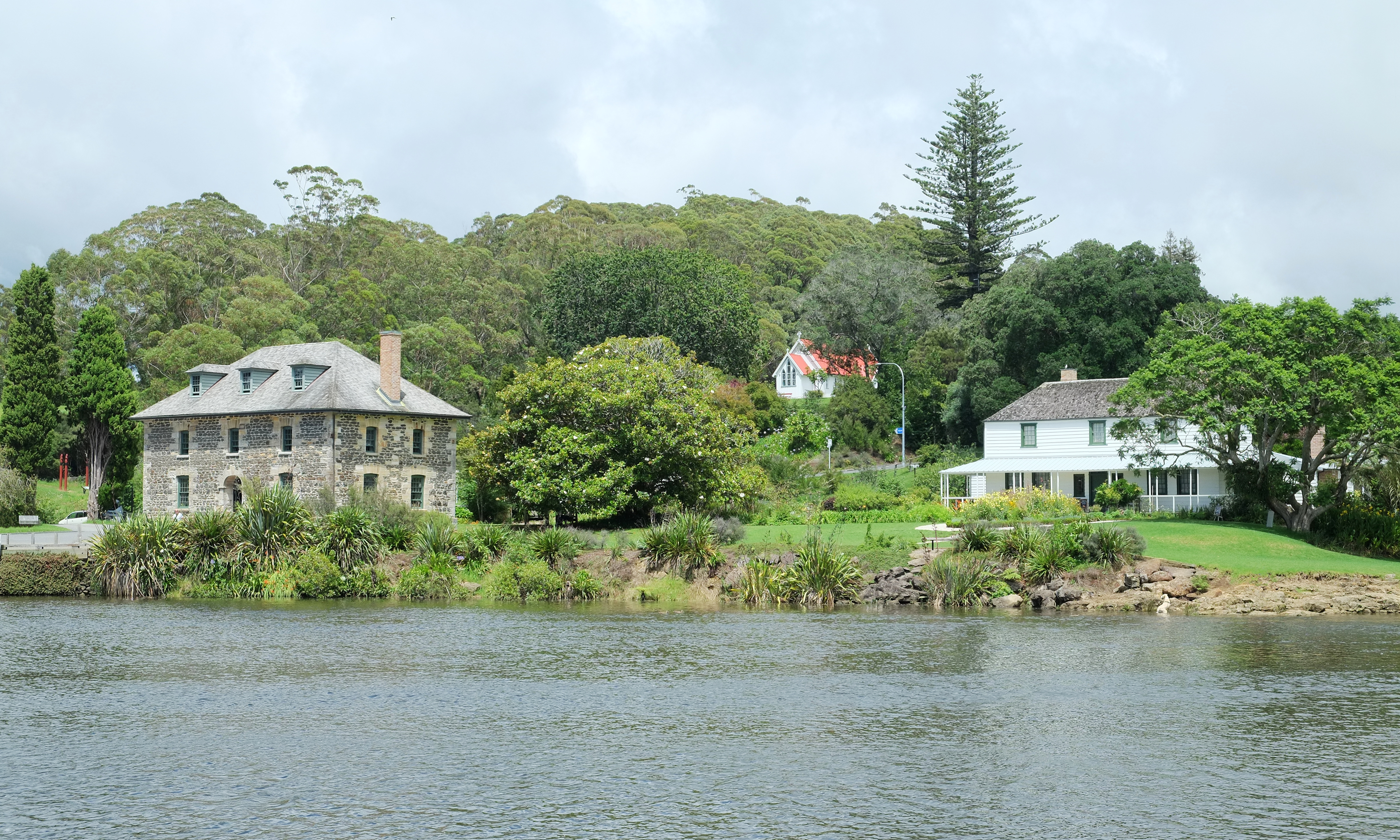 The historic Stone Store and Kemp House in Kerikeri from across Kerikeri River